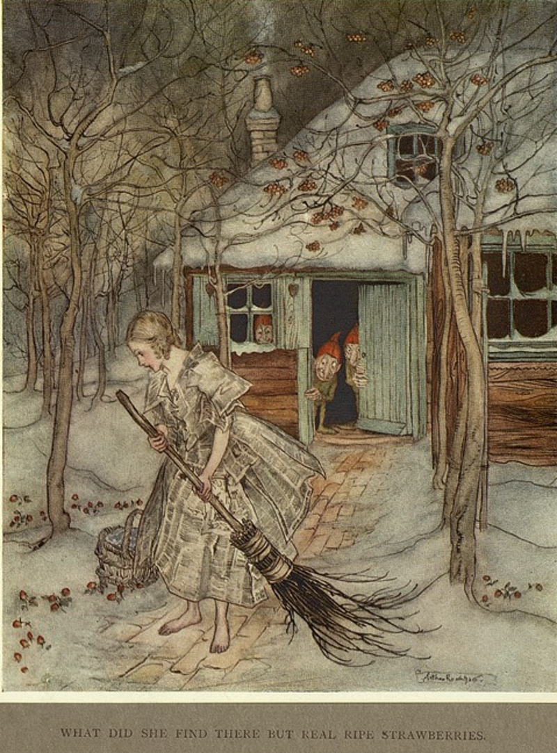 Little brother & little sister and other tales by the Brothers Grimm, illustrated by Arthur Rackham, 1917.